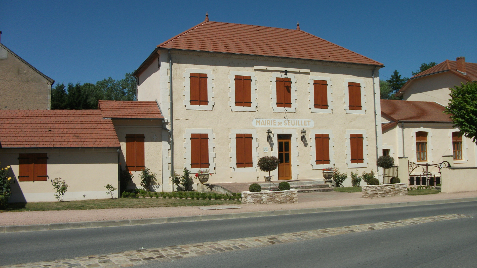 Town hall of Seuillet, Allier, Auvergne-Rhône-Alpes, France.